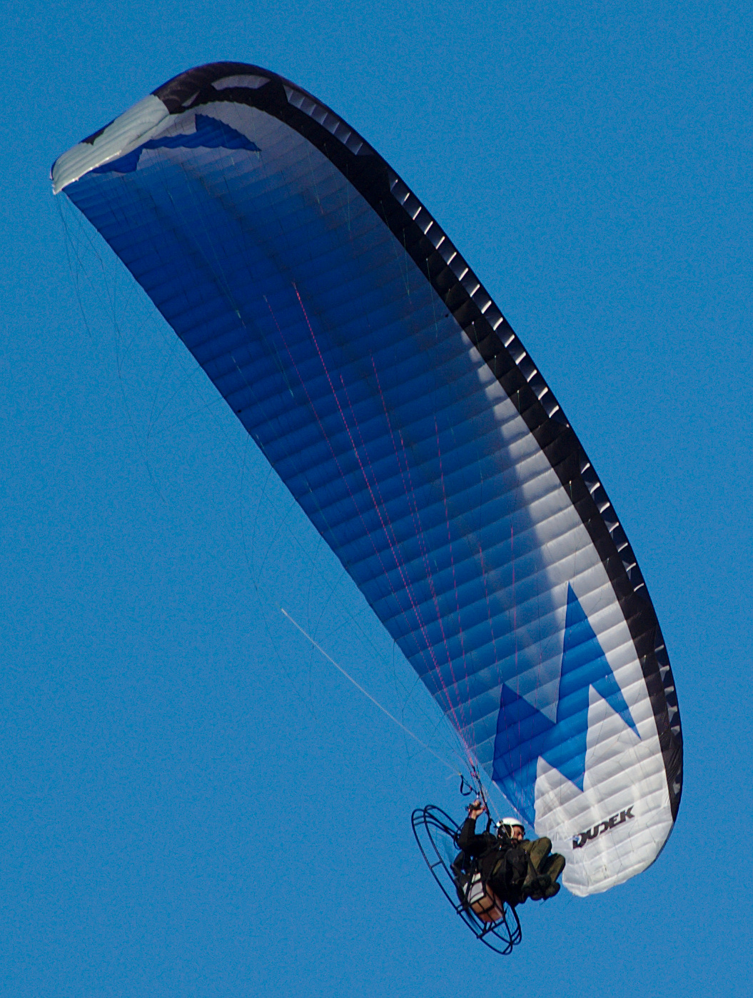 Powered Paraglider